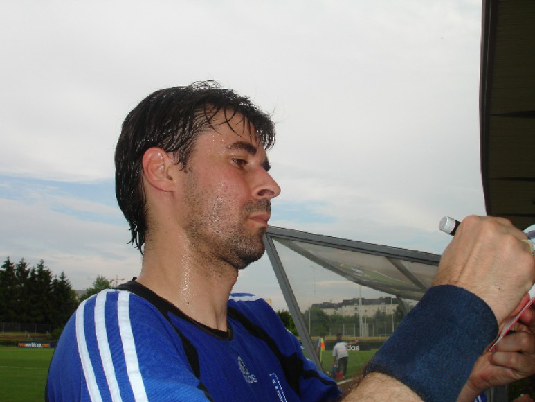 Greek footballer, Vasilis Tsiartas